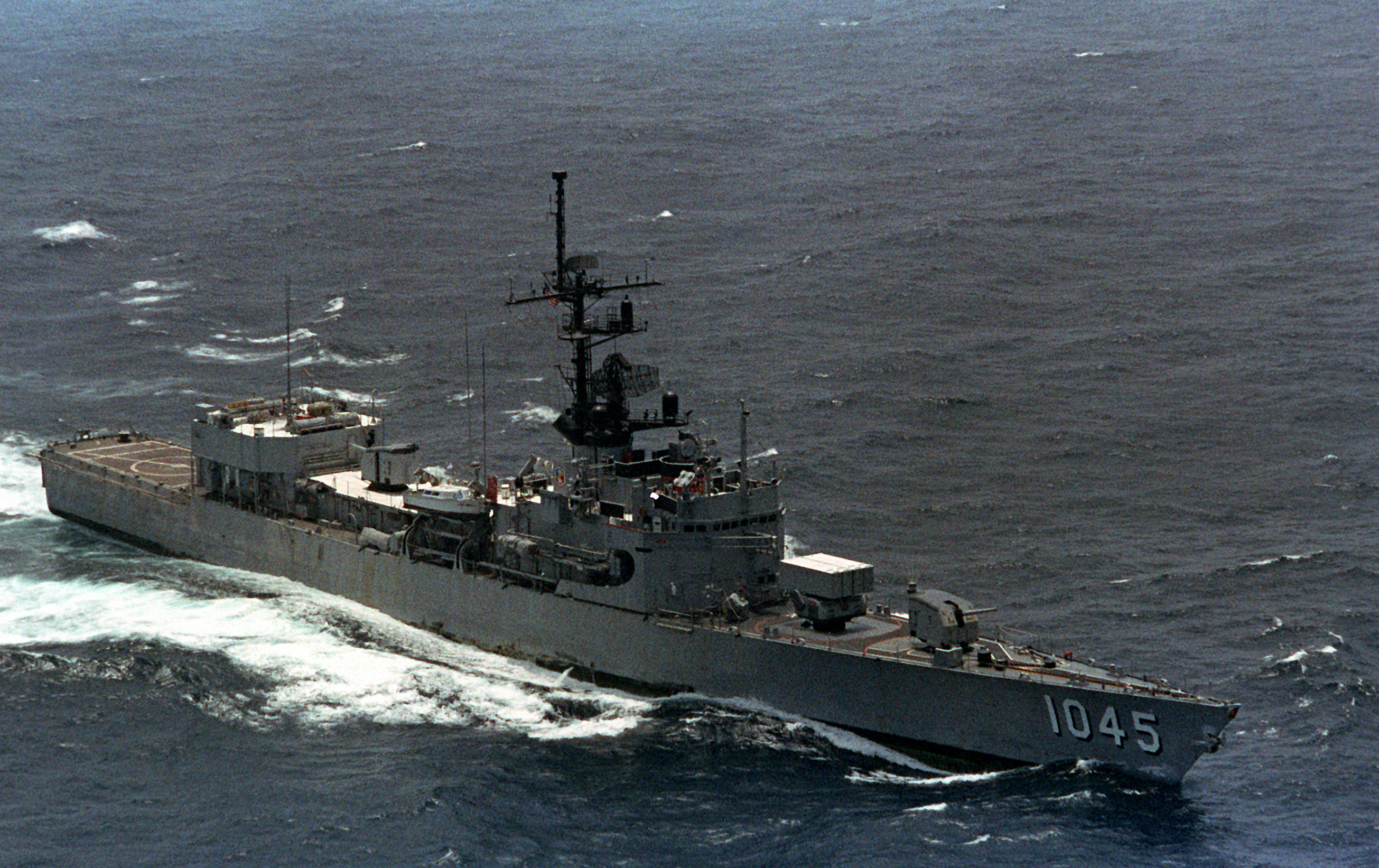 The U.S. Navy frigate USS Davidson (FF-1045) underway in the Indian Ocean on 1 May 1983.